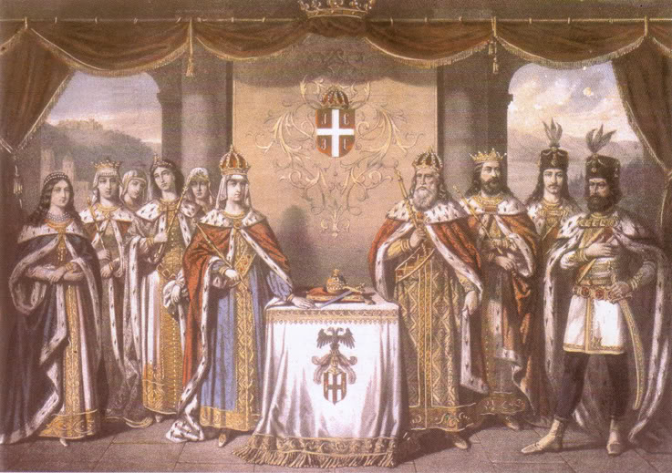 Car Lazar i njegova porodica ("Tsar Lazar and his family"), reproduction of unknown date of an original lithography dating to 1860, by Pavle Čortanović.[1]